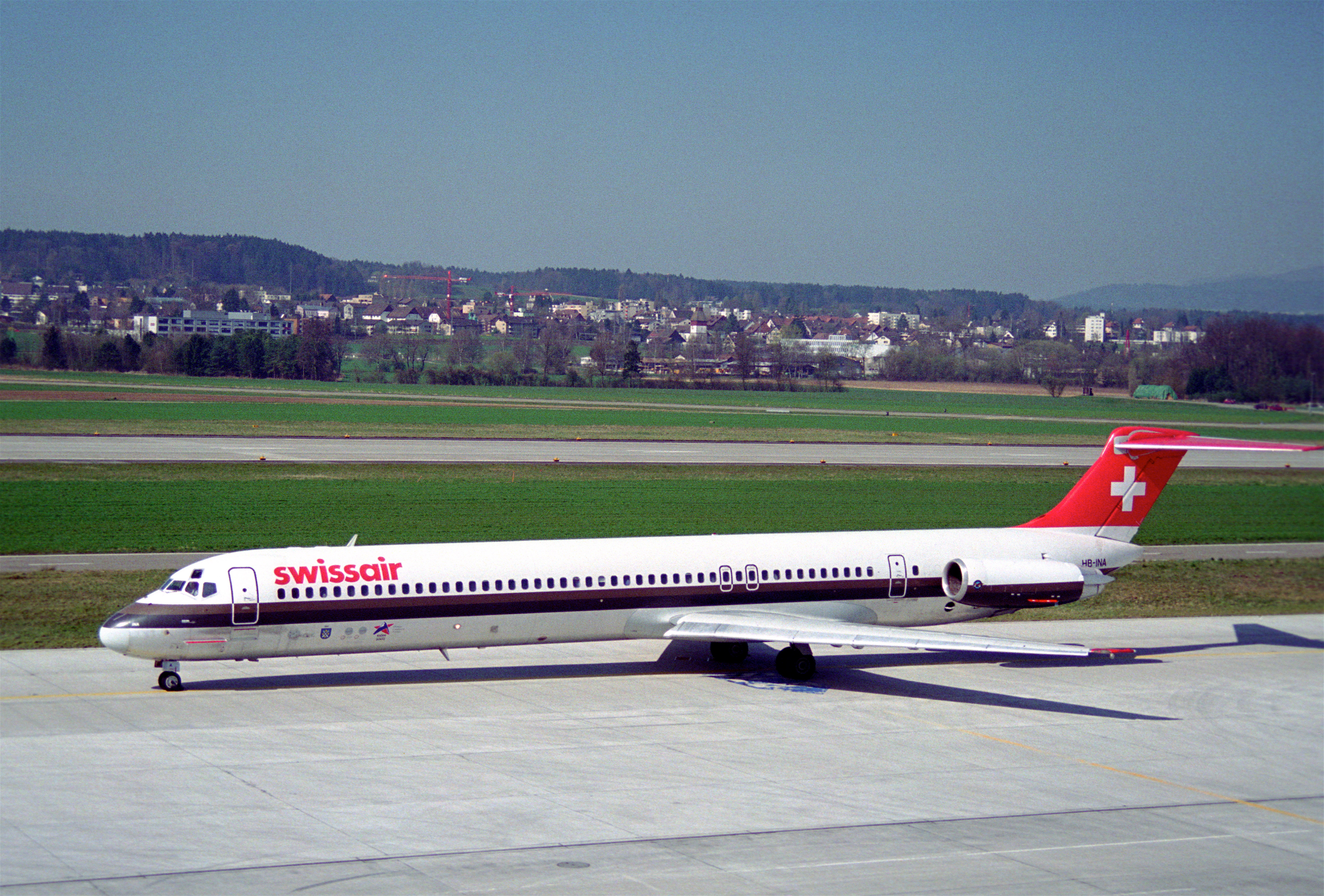 I flew on this plane on October 20, 1994, routing FRA-ZRH...